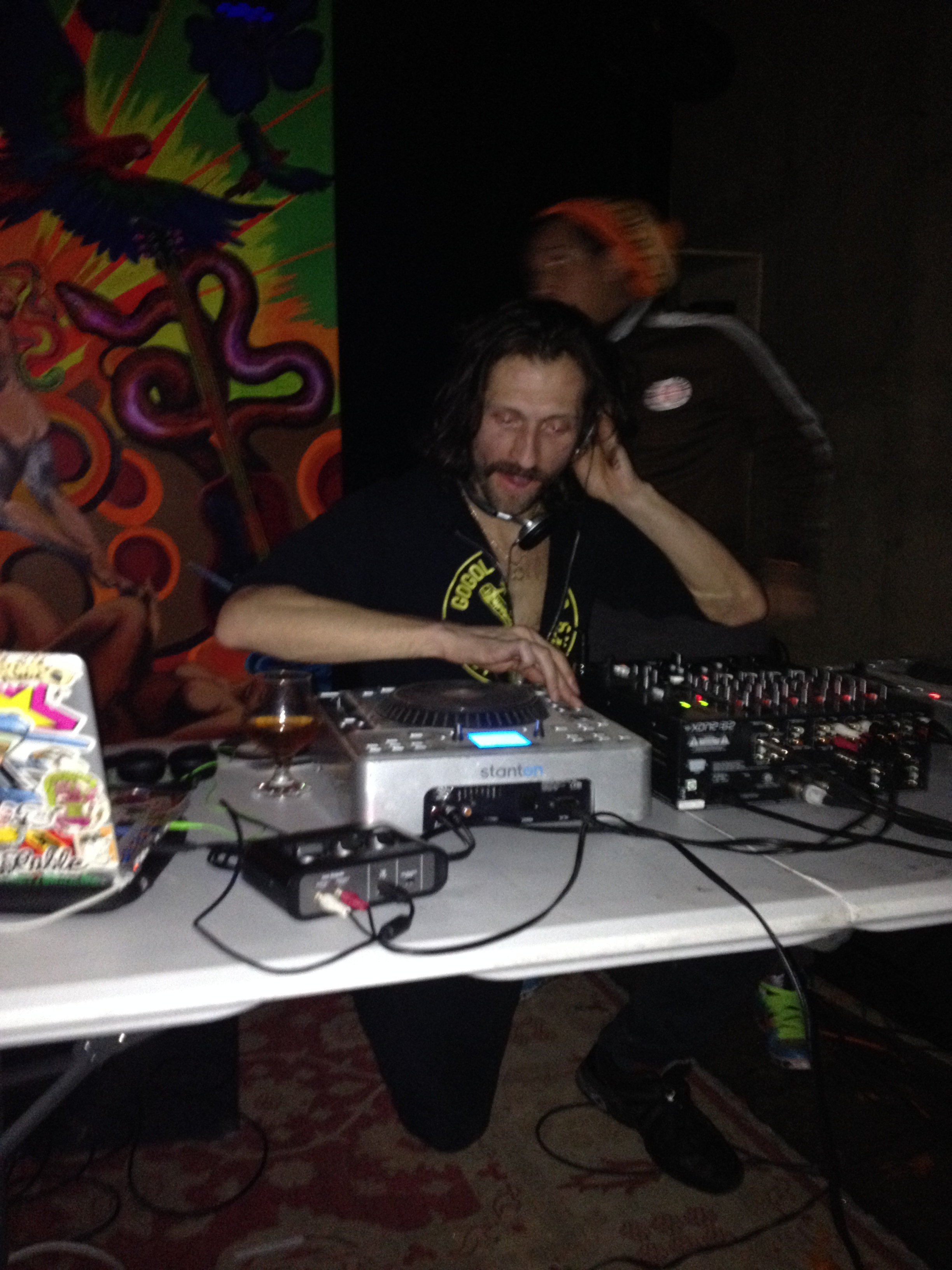 Eugene Hütz DJing at Tropicalia in Washington, DC on December 28, 2013 after a Gogol Bordello show at 9:30 Club.